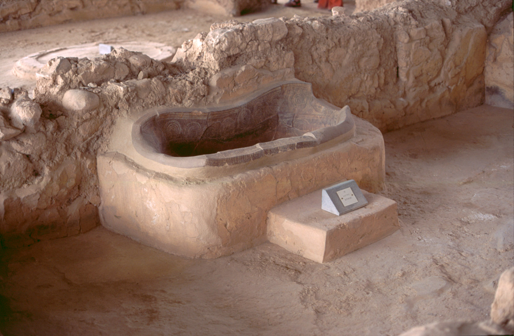 Bathtub in Nestors palace at pylos. Own work, 2003, MC Rokkor-PG 50/1,4 on Provia 400.